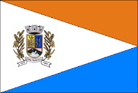 Flags of the city of Dona Francisca, Rio Grande do Sul, Brazil.